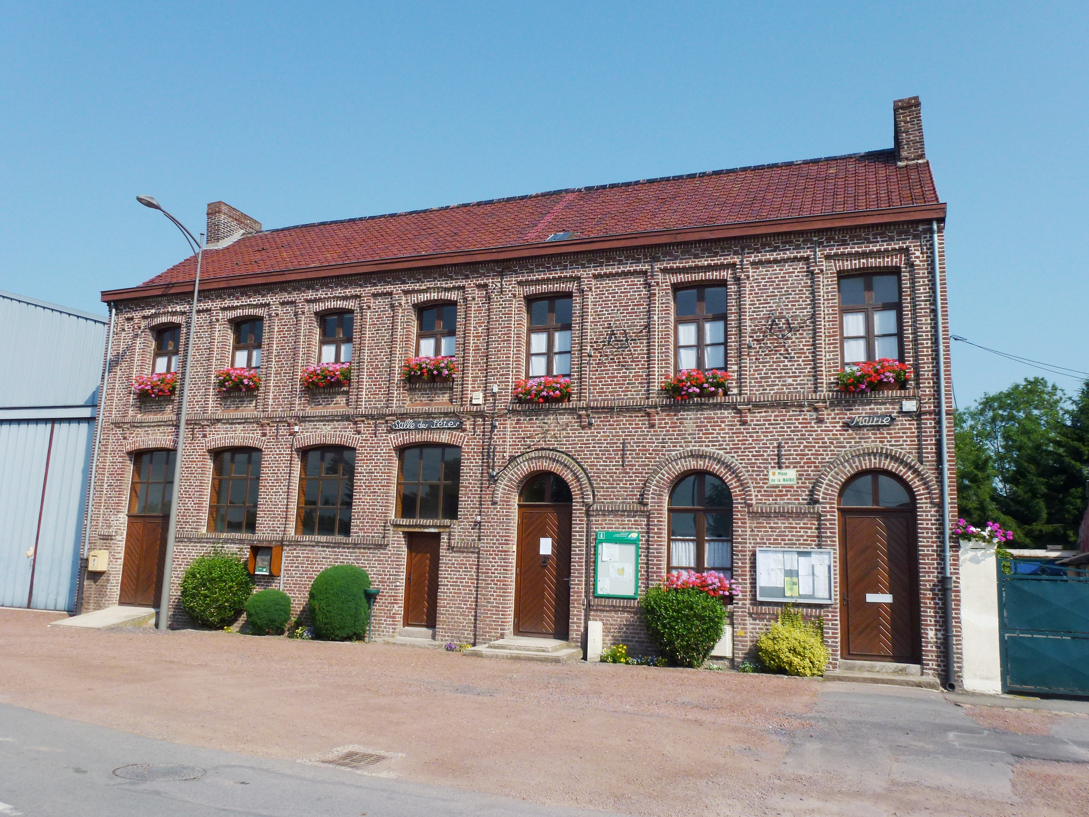 Sars-et-Rosières (Nord, Fr) mairie - salle des fêtes